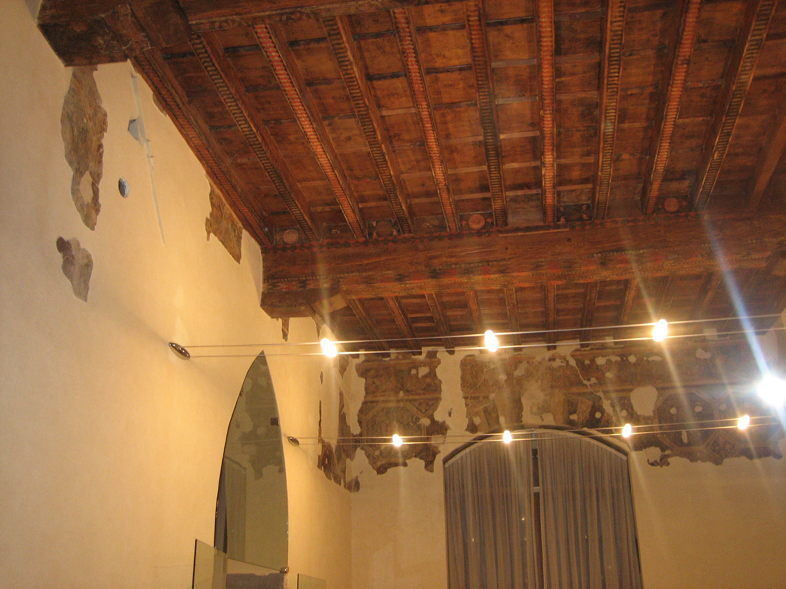 Inside Main Lecture Room KSU Florence Facility